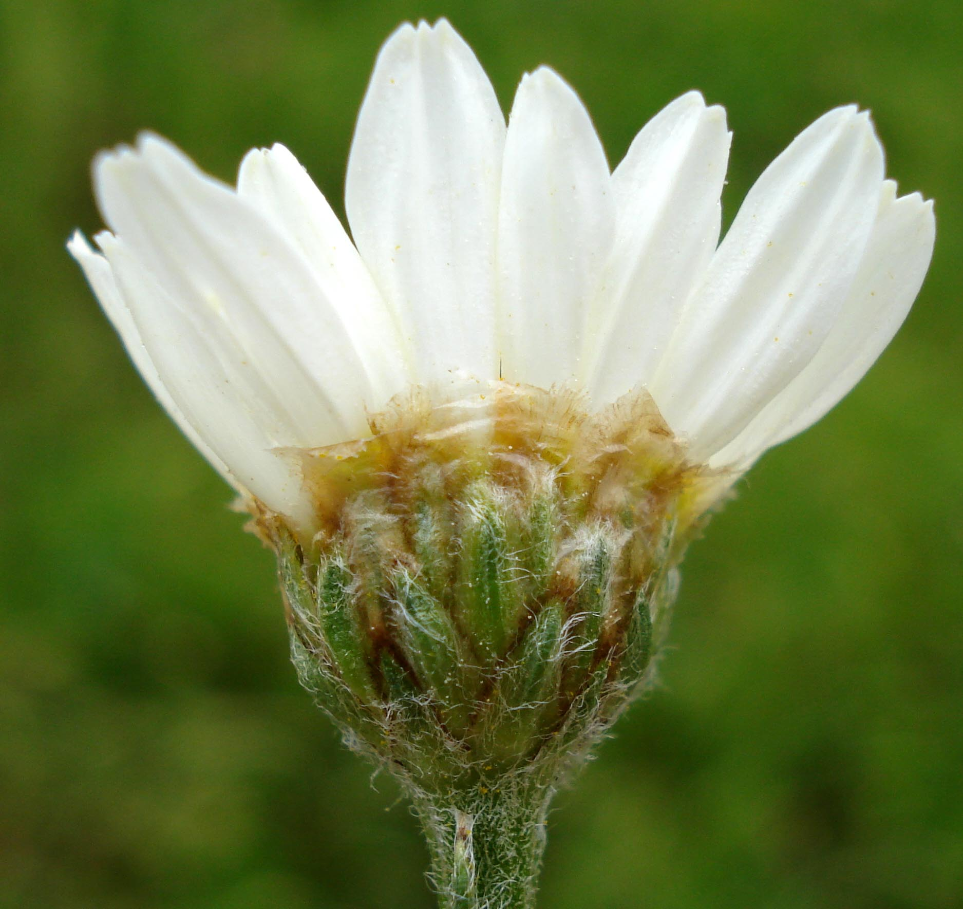 Tanacetum corymbosum (Unterfranken, Germany)